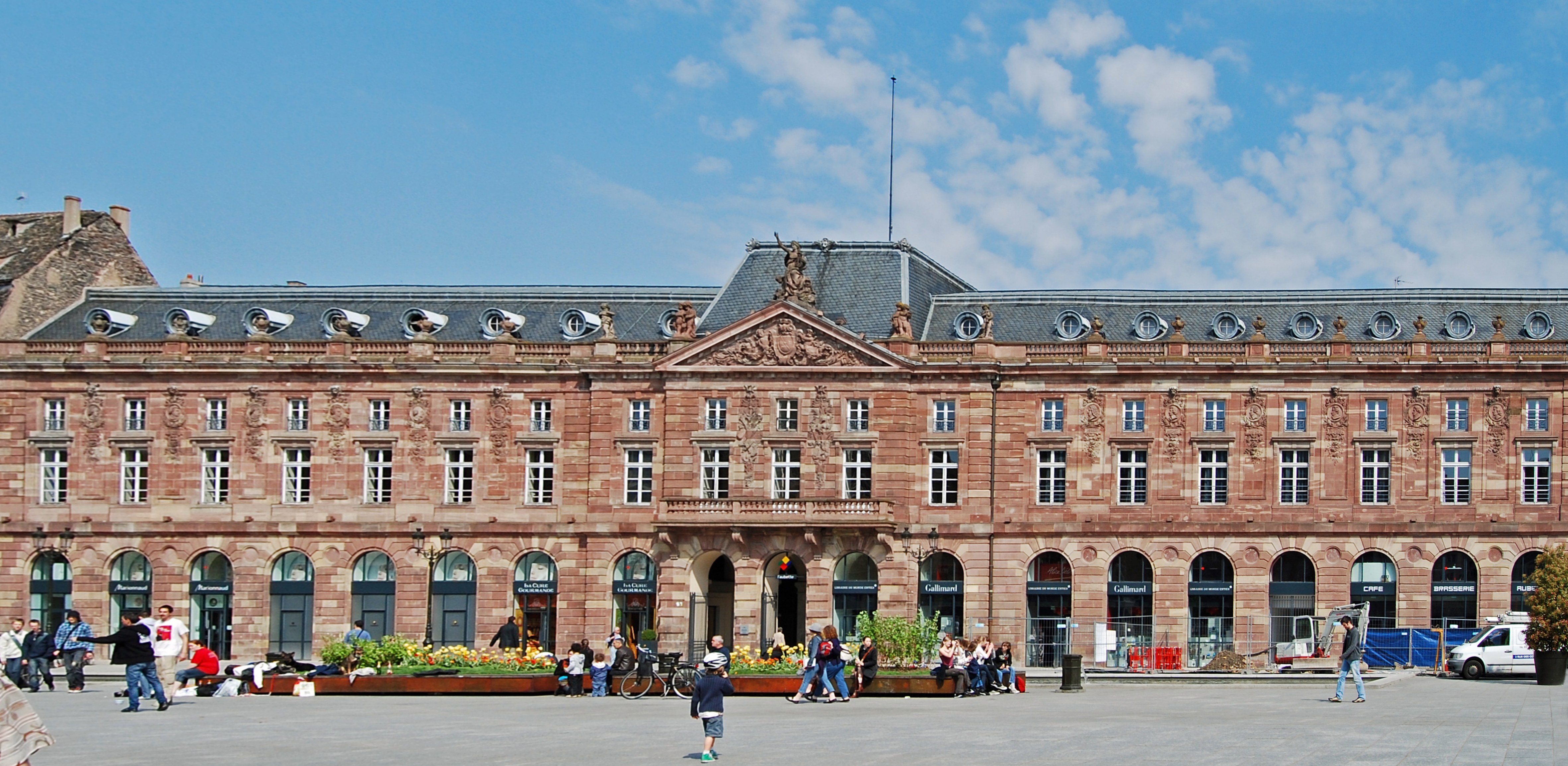 Aubette, Place Kléber, Strasbourg